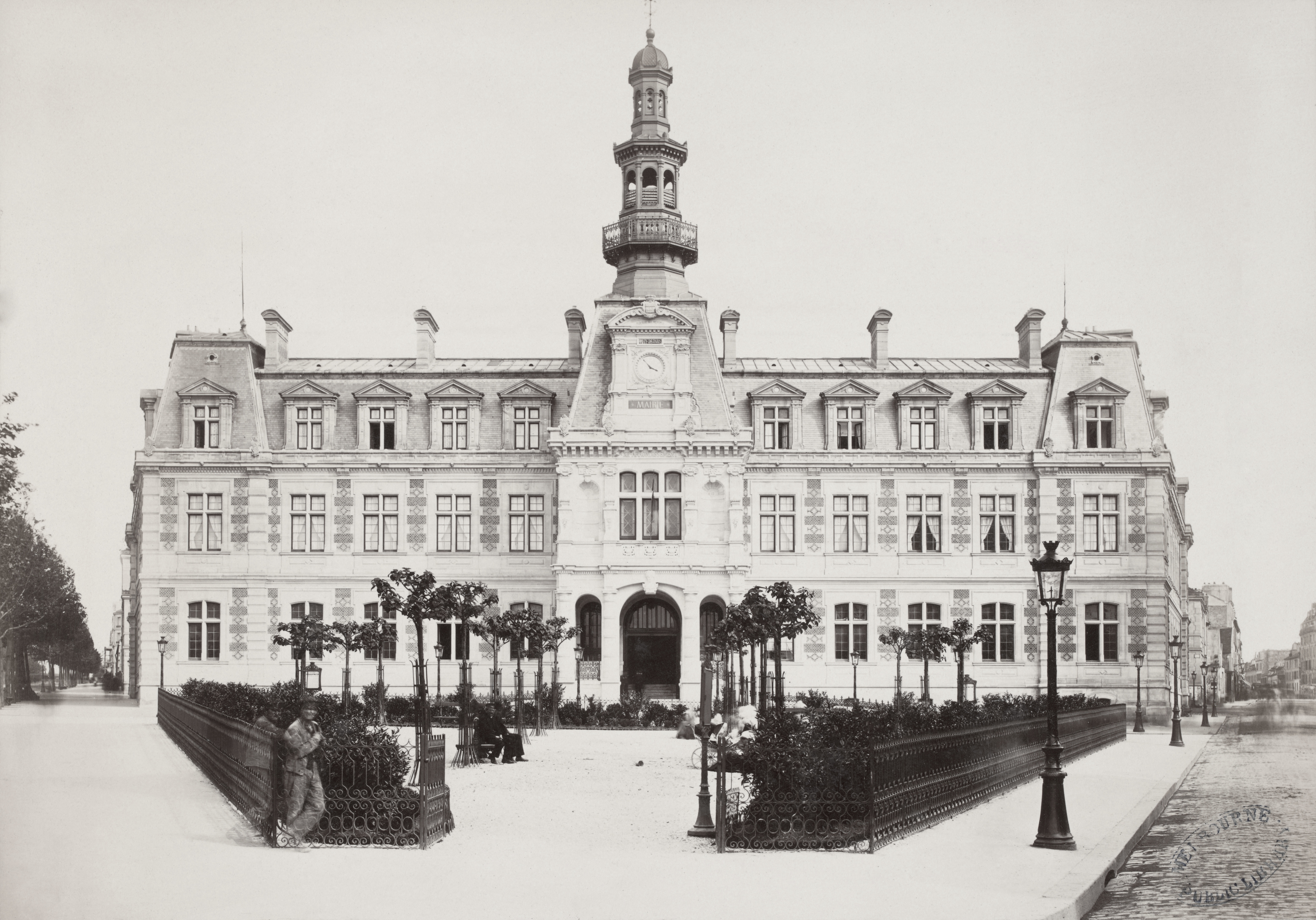 Looking towards facade of Town Hall of Paris XIIe arrondissement, three storey building with tower and viewing platform, shrubbery along railing fence in wedge shape in front of building, man leaning against railing fence, lamposts along path on right.